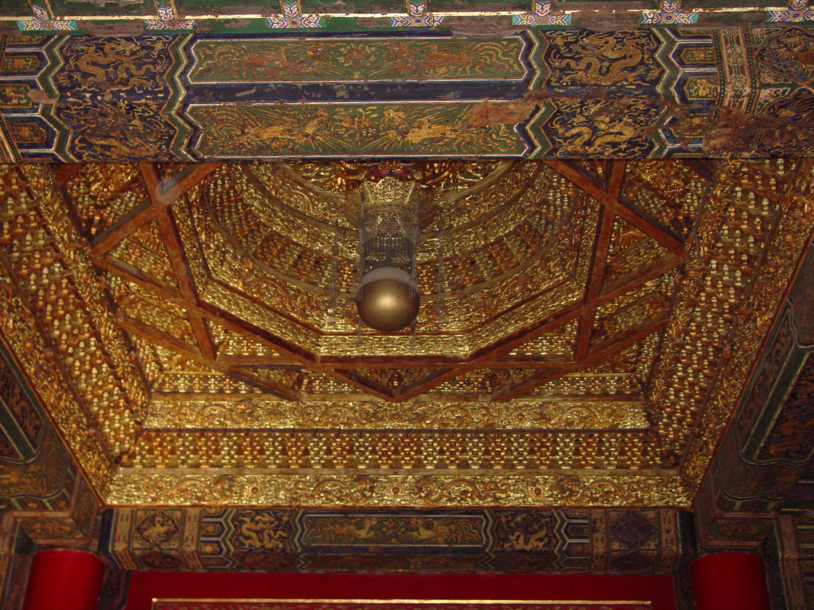 Ceiling, Hall Of Union. Forbidden City, Beijing The decoration of this ceiling is outstanding in every respect - proportions, craftsmanship, geometry - truly, one of the great ceilings of China.